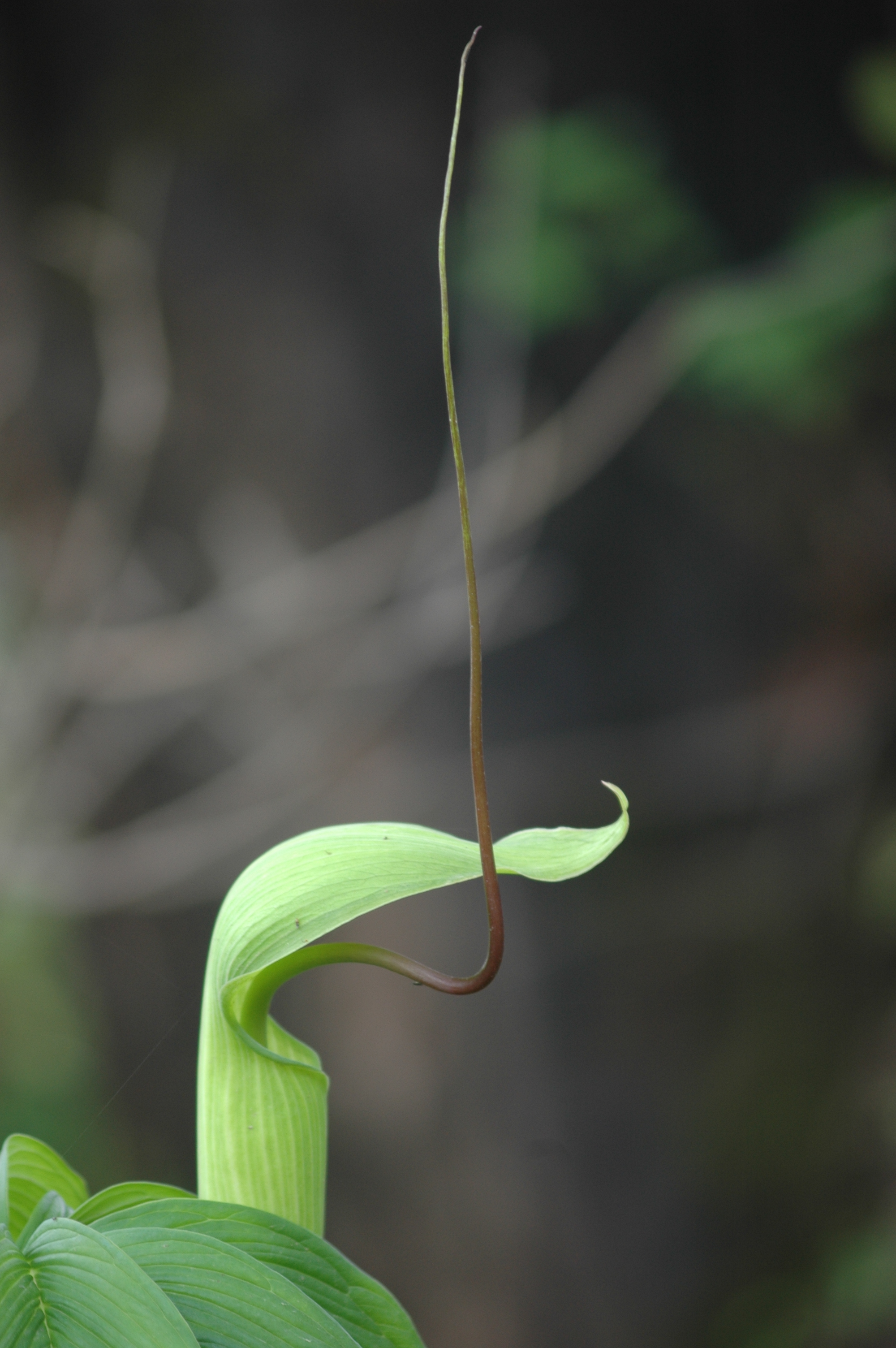 A photograph of Whipcord Cobra Lily (Arisaema tortuosum)